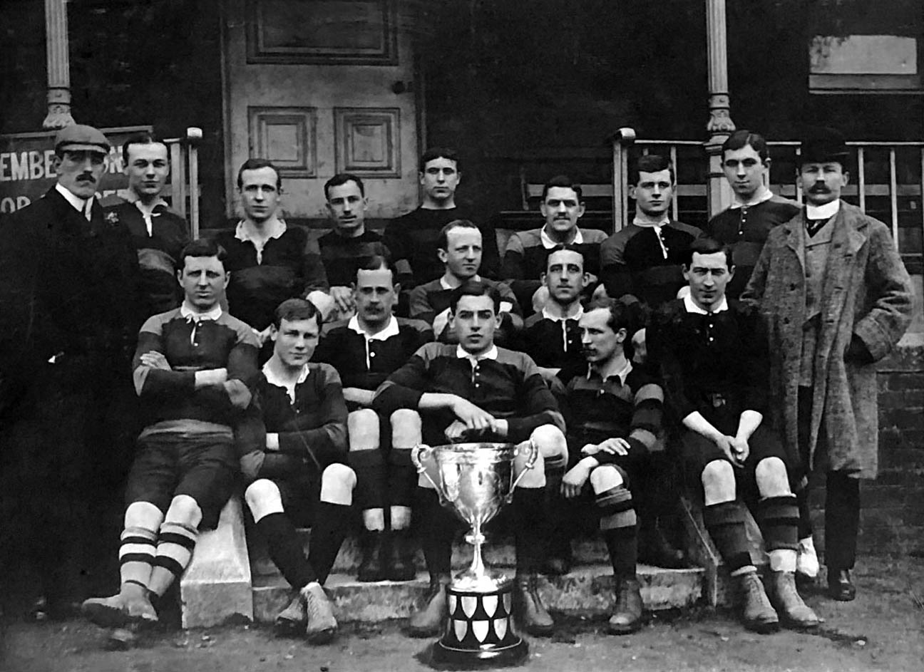 Sunderland football team, winner of Durham County Challenge Cup, posing with the trophy.